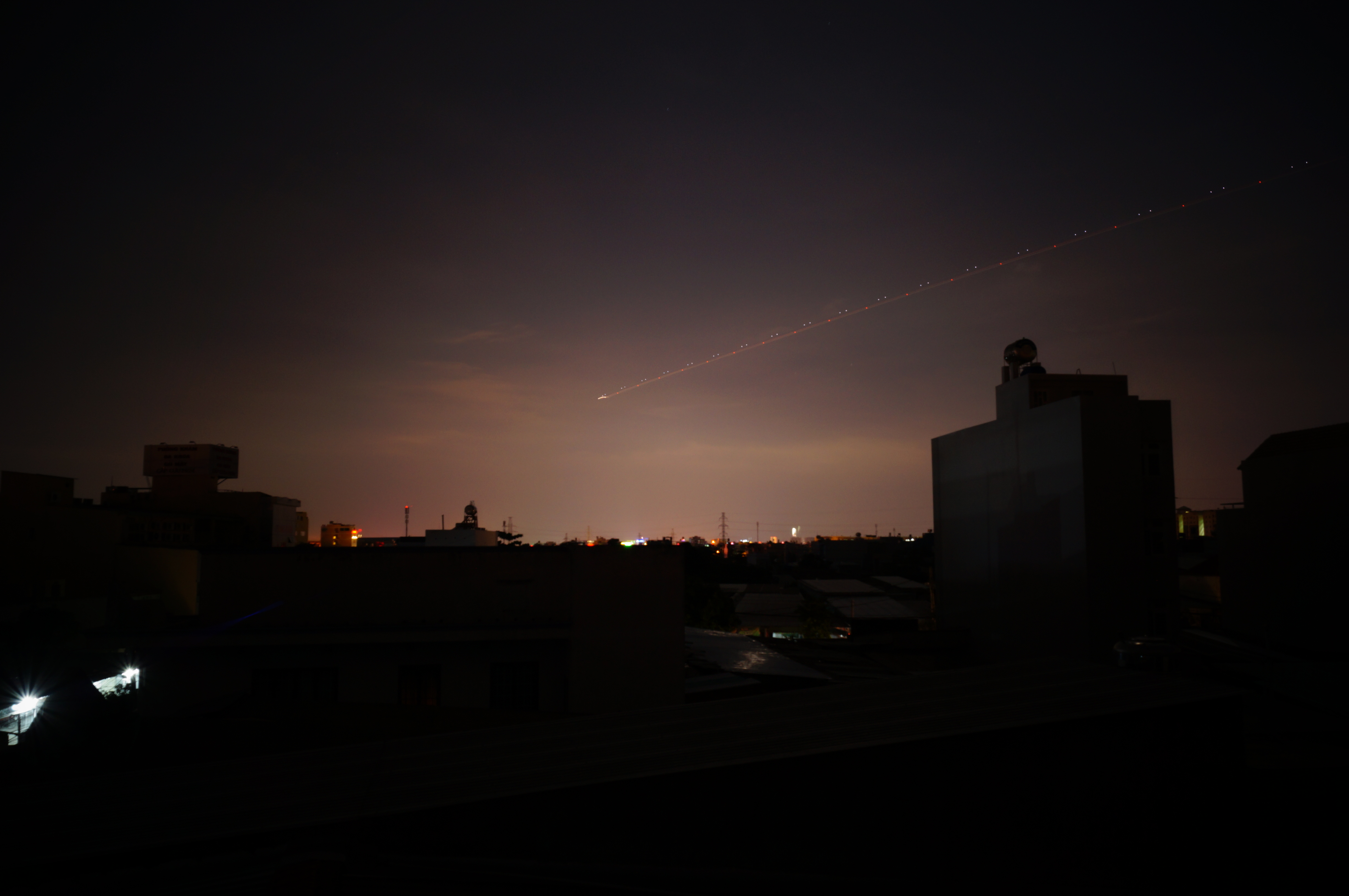 A part of HCMC covered in dark due to the power outages.